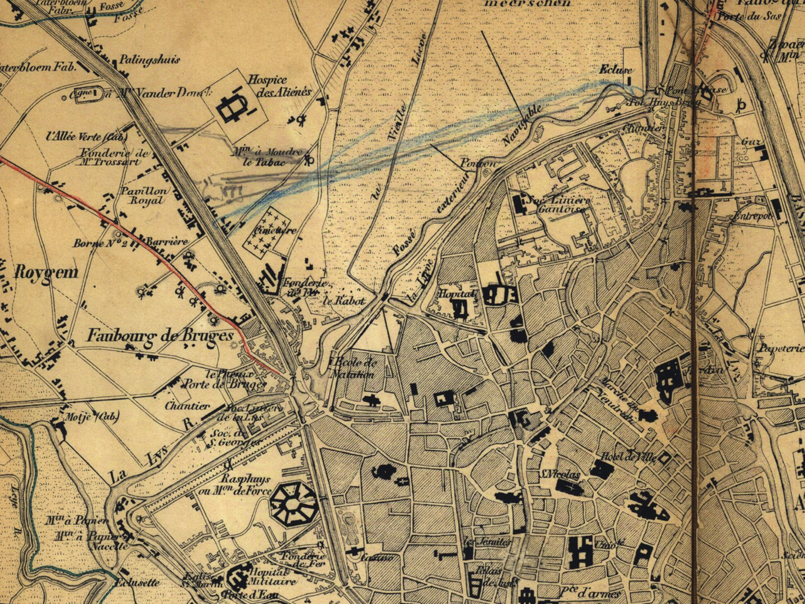 Ghent,_Belgium,_s1856VanderMaelen_73_detail_NW